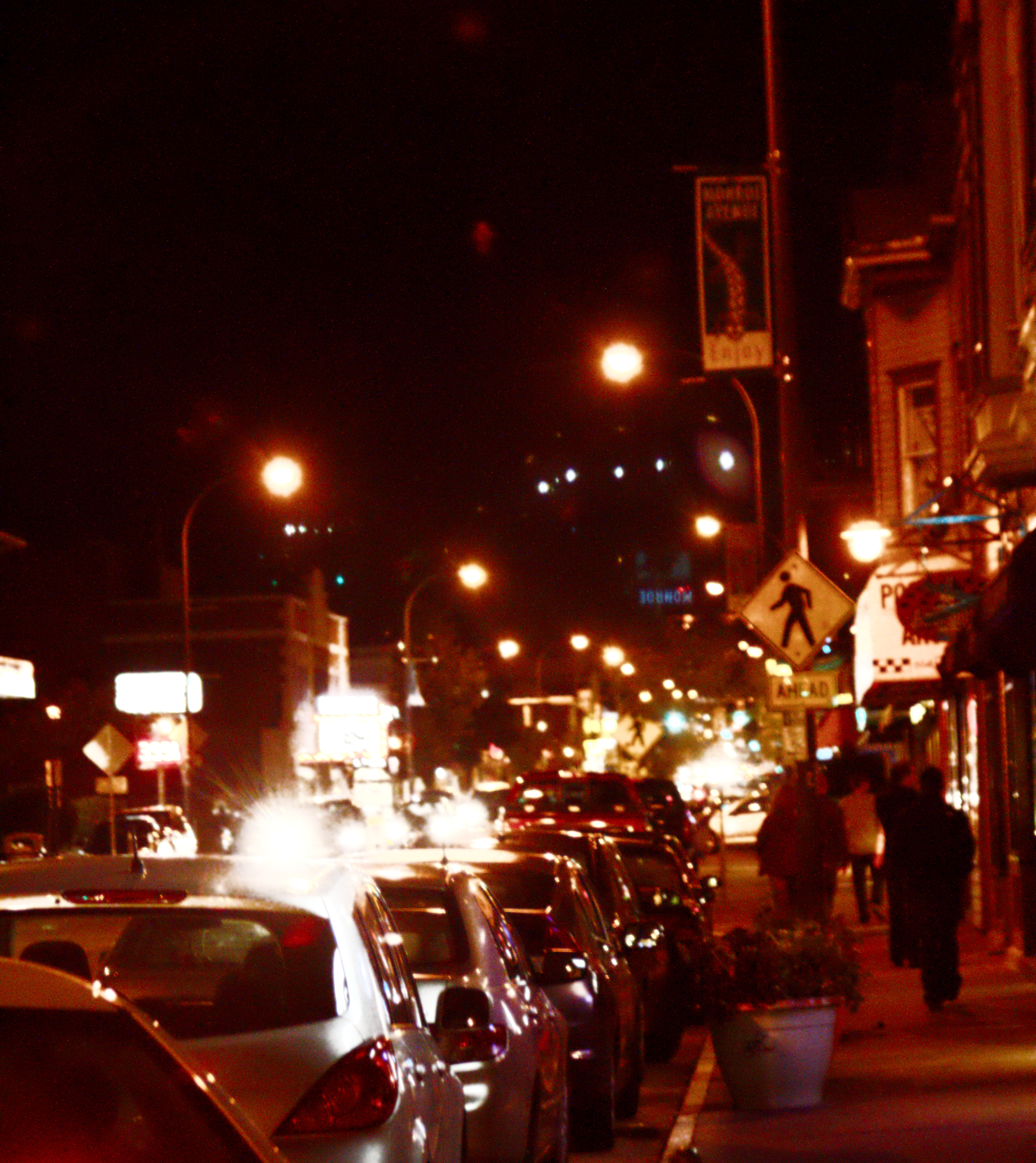 Monroe Avenue at Night